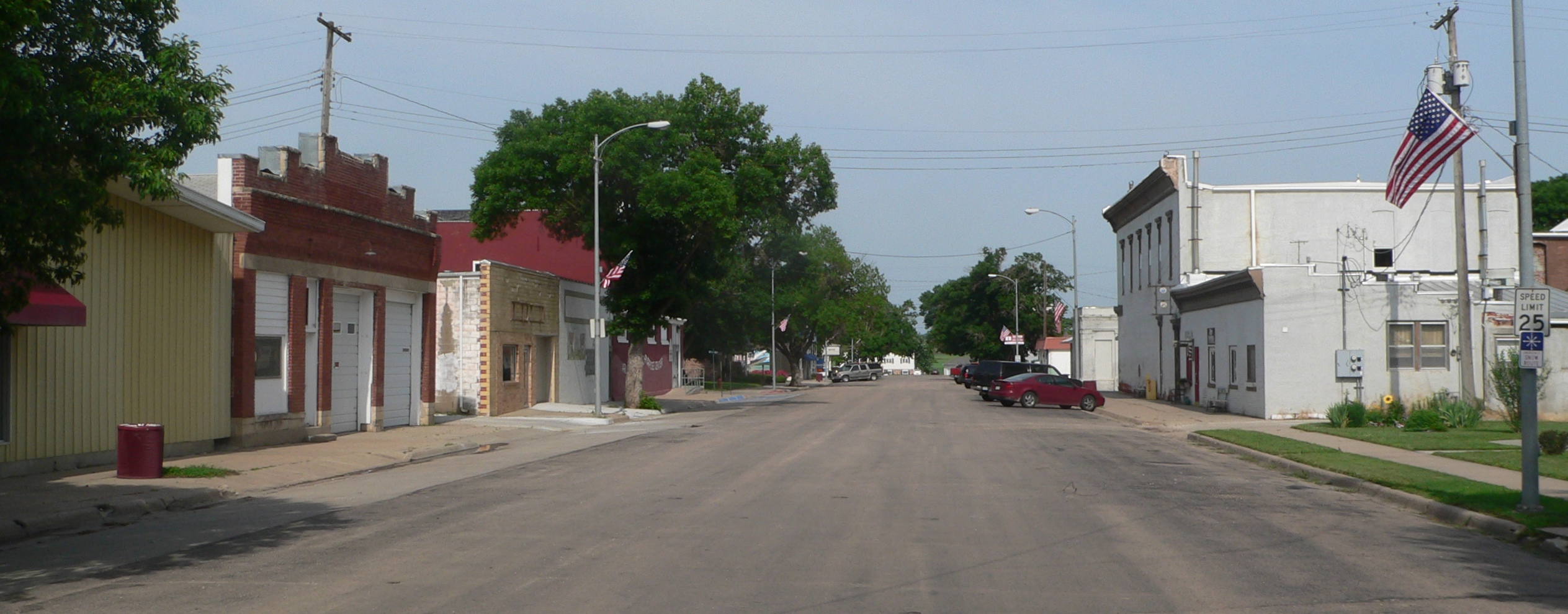 Downtown Arlington, Nebraska: Eagle Street, looking eastward from about Fourth Street.